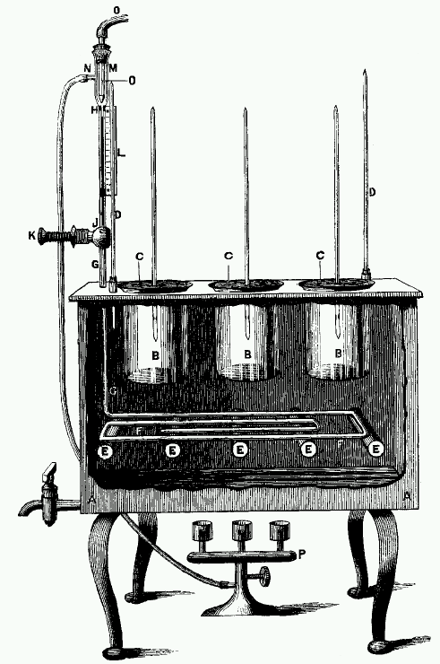 Image of an incubator